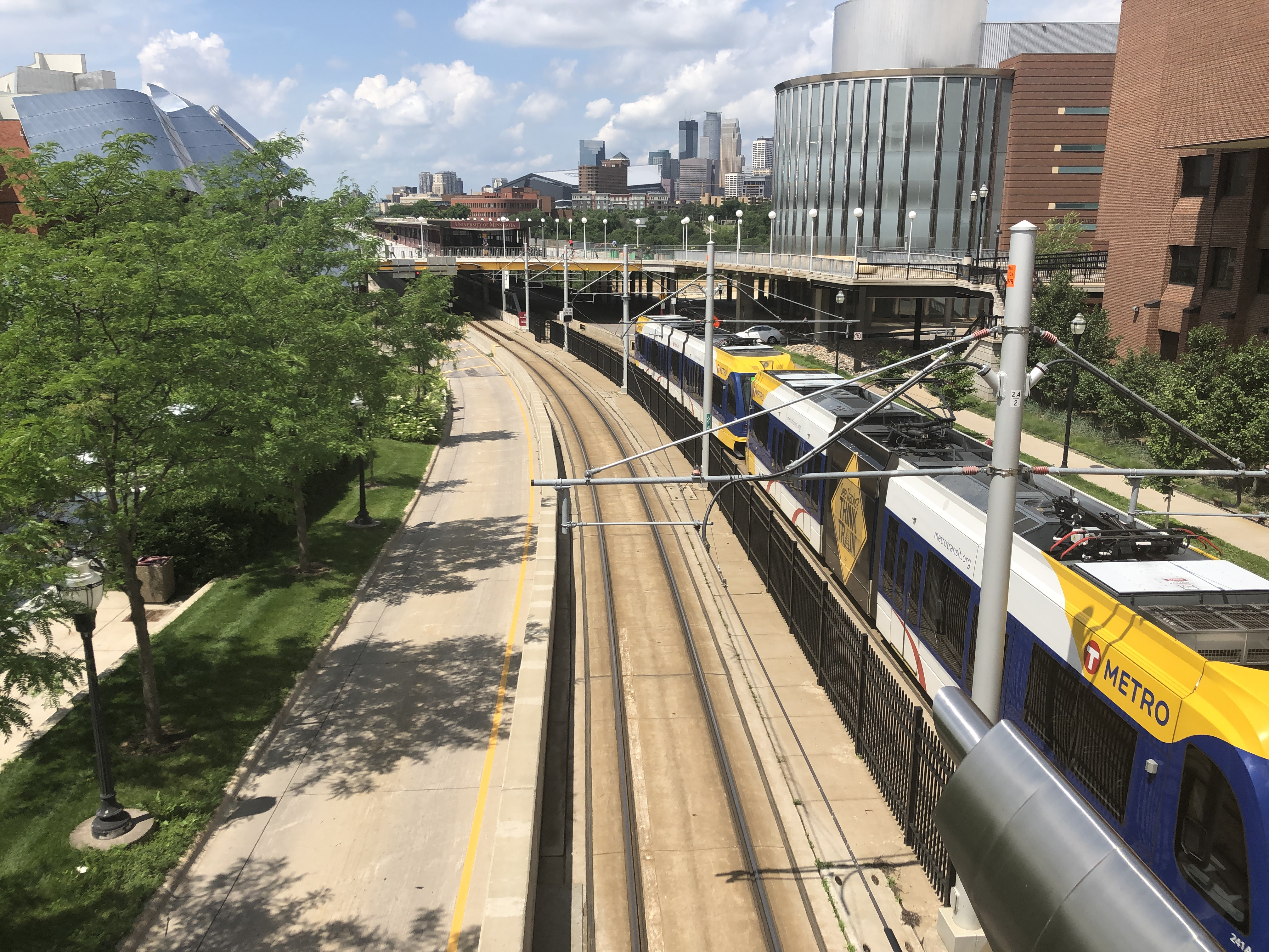 An westbound Green Line train approaching the Washington Avenue Bridge traveling past the Weisman Art Museum on the University of Minnesota's East Bank